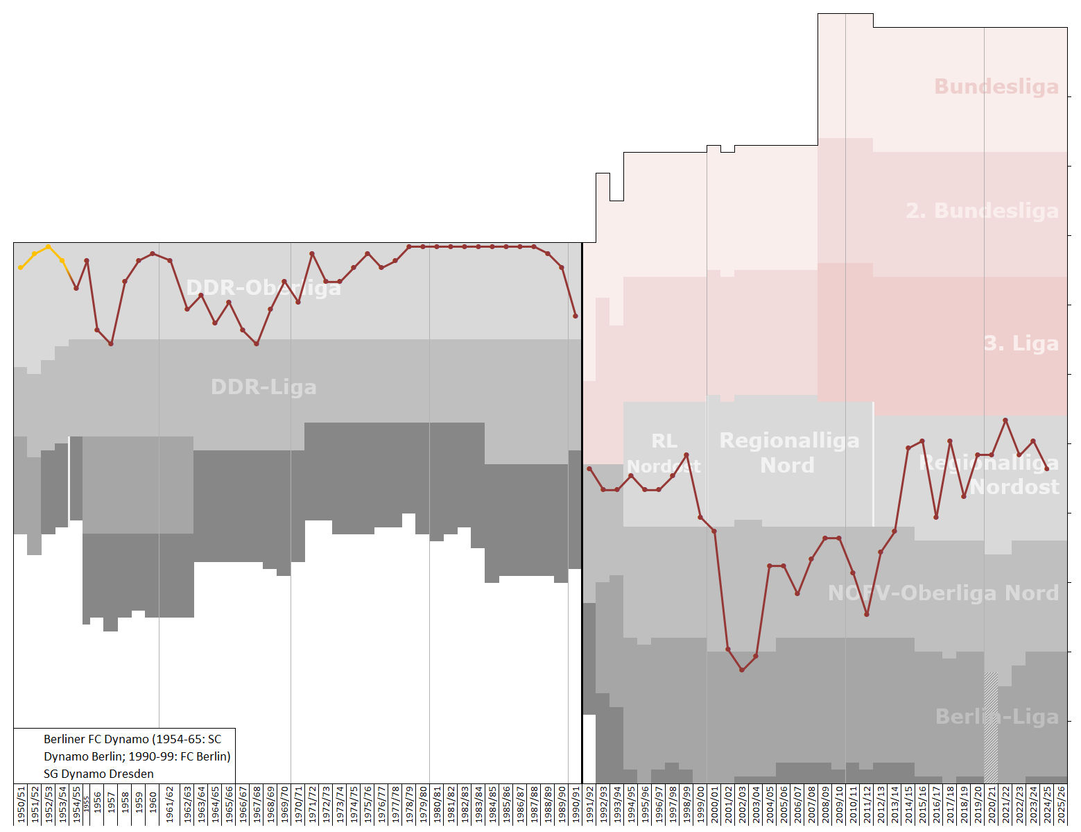 Chart of end-season table positions of Dynamo Berlin in the football league system of Germany and GDR. Data source: RSSSF, wikipedia, f-archiv.de, fussball.de